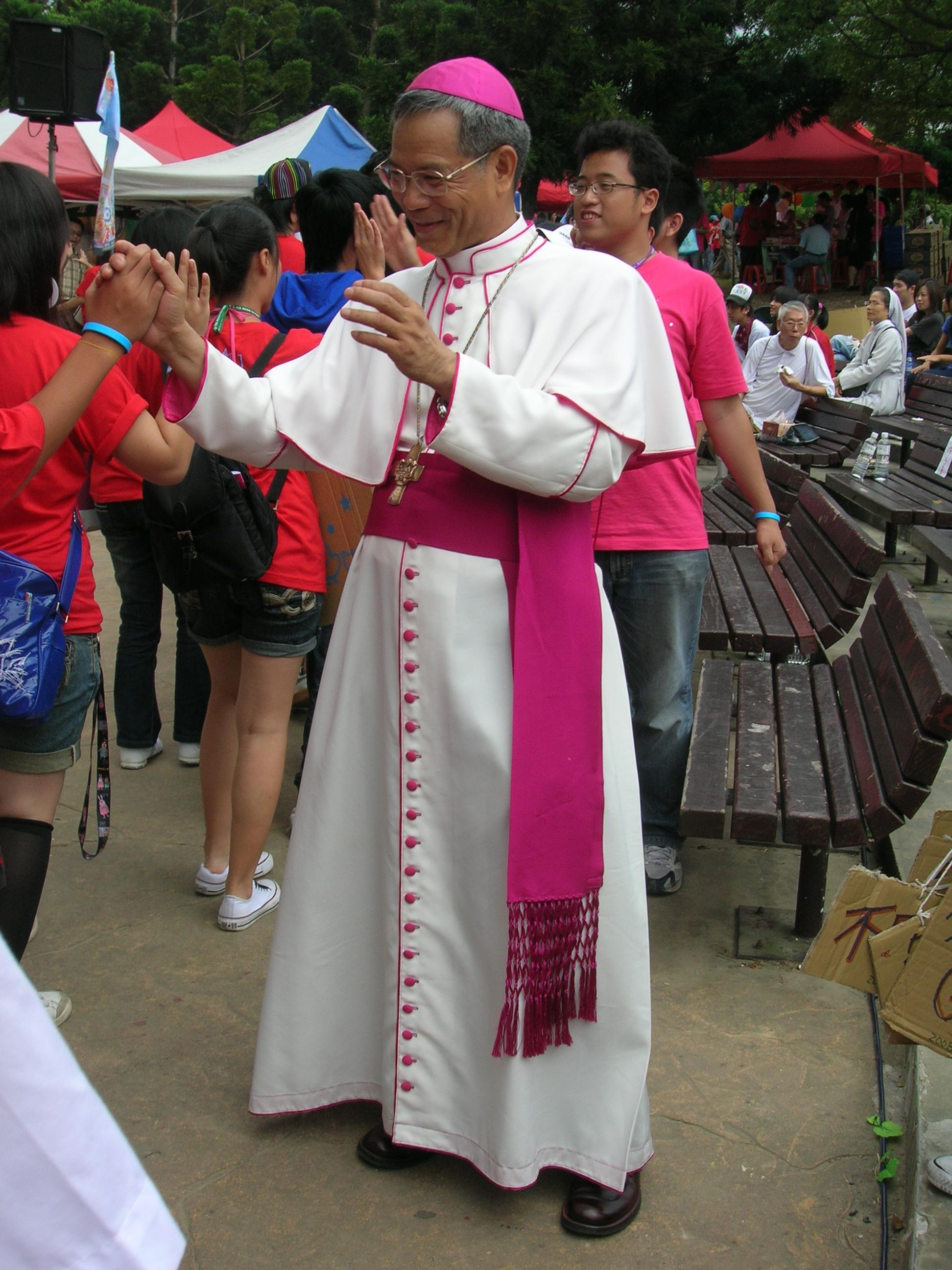 Archbishop John Hung Shan-chuan, S.V.D. of Taipei Archdiocese, Taiwan. Image taken by me at Taiwan Youth Day 2008 in Taipei.